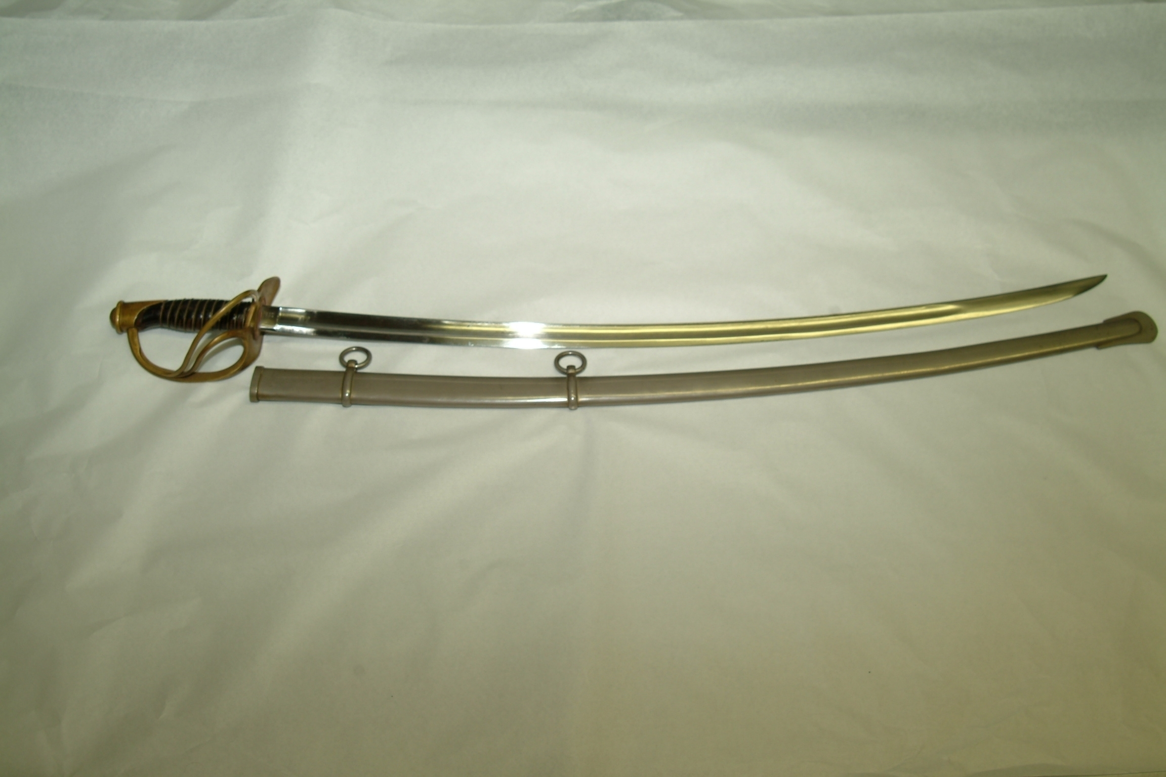 Model 1858 Light Cavalry Saber carried by Captain Walter H. Fitton, 5th Pennsylvania Cavalry Regiment, which served in the Appomattox Campaign.